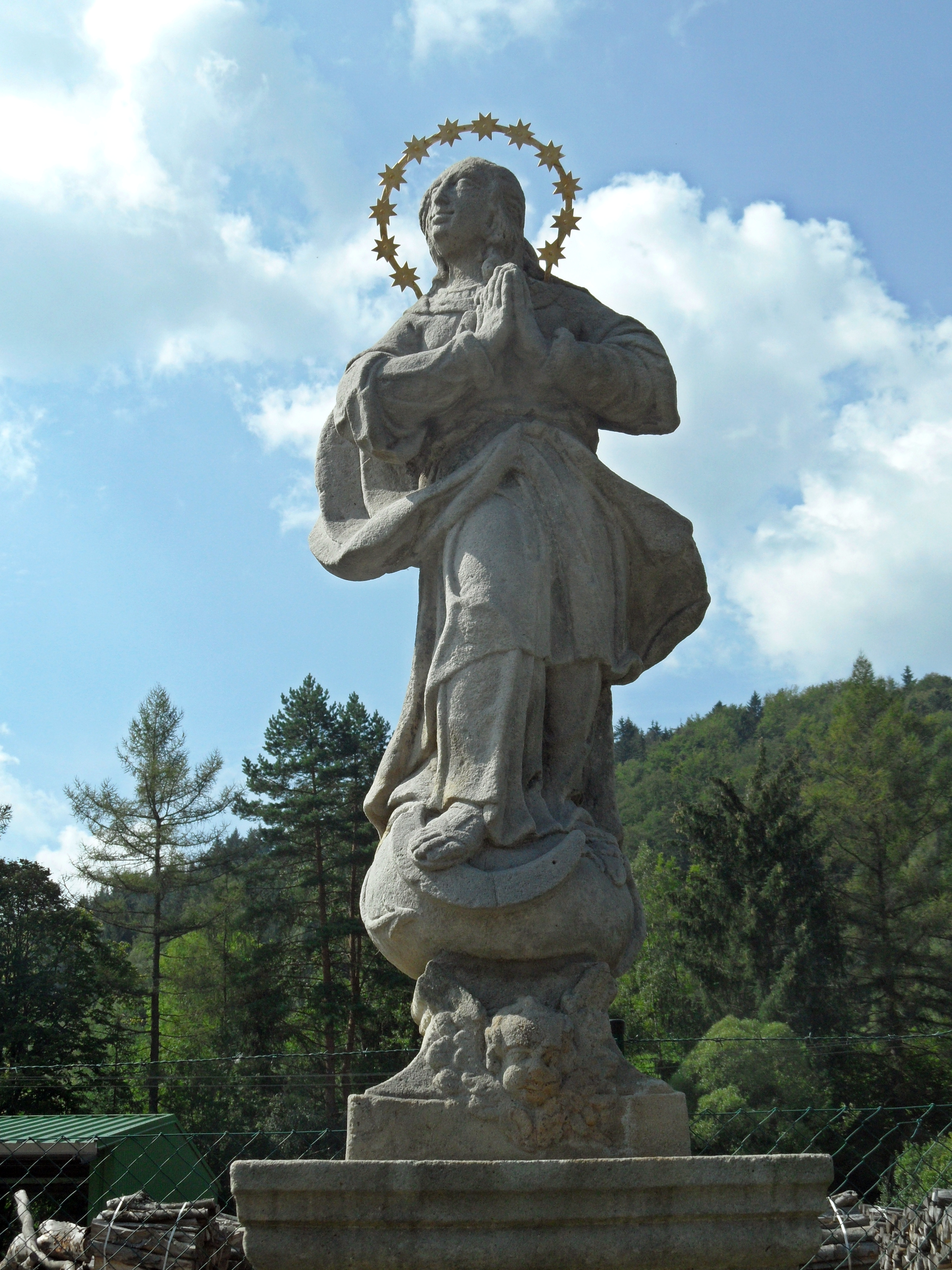 Vlaské: Statue of Immaculata: Semi-detail: Front View. Šumperk District, the Czech Republic.